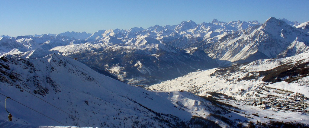 Panoramic view of Sestriere from Monte Rotta